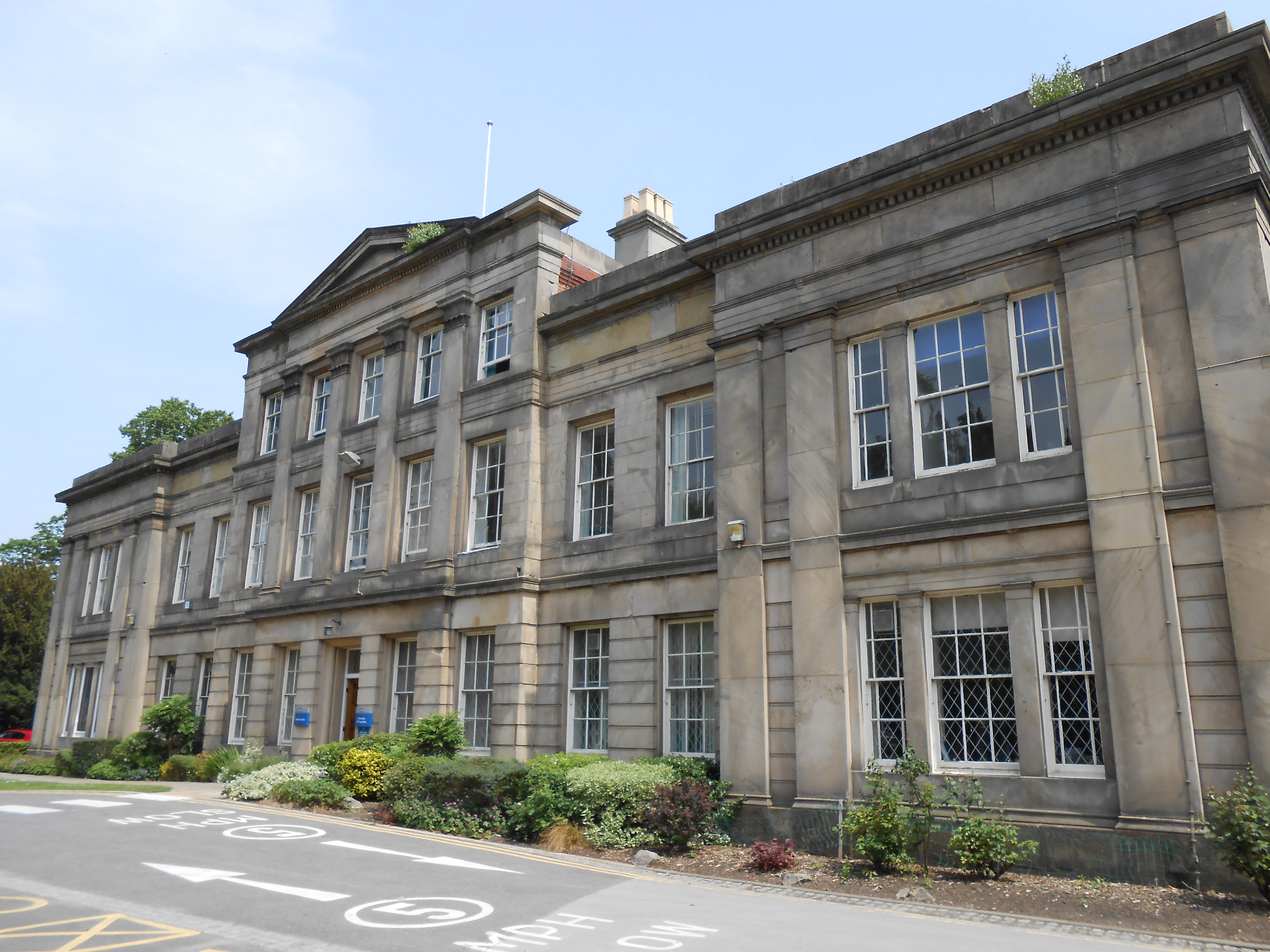 Photo taken at Didsbury Campus, part of Manchester Metropolitan University, England.